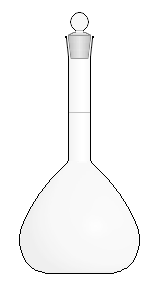 Drawing of Volumetric Flask with a ground glass stopper at the top.